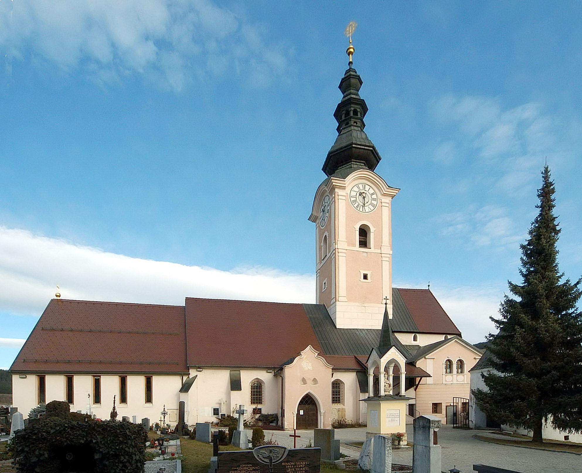 City parish church Assumption of Mary, city Feldkirchen, district Feldkirchen, Carinthia, Austria, EU